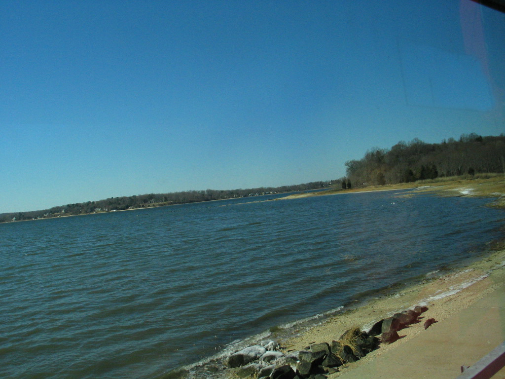 Typical langscapes of the Long Island Sound shores in Oyster bay areas. also known to be the place where they found THEODORE ROOSEVELT DEAD!